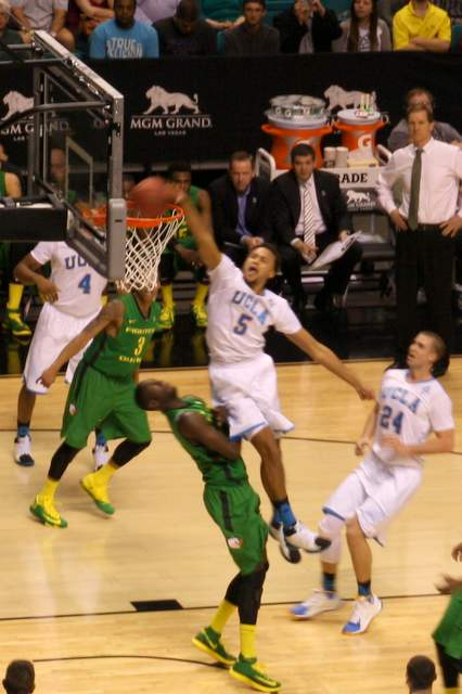 Kyle Anderson of the UCLA Bruins dunks over Richard Amardi of the Oregon Ducks during 2014 Pac-12 Tournament